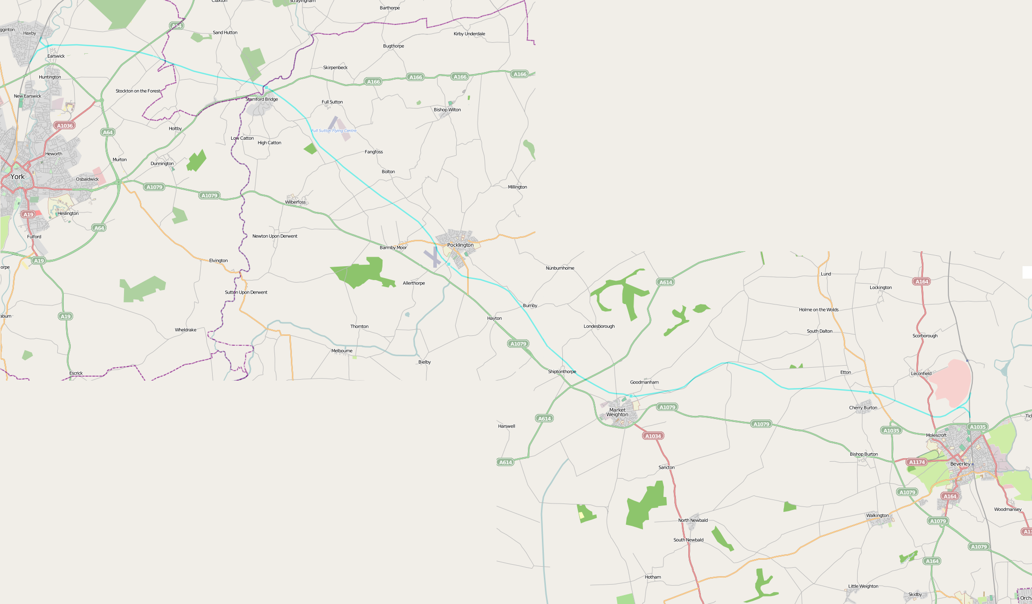 Possible route of reopened York to Beverley Line, England. The route follows the original trackbed where possible and East Riding of Yorkshire Council's proposed routes (and station locations) around Stamford Bridge, Pocklington and Market Weighton. The northbound link at the Beverley end, the East-Coast-Mainline links at the York end and the Cherry Burton station are all speculation by the author.